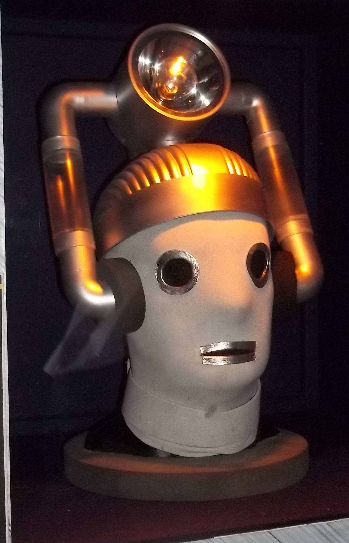 Cyberman Head from The Tenth Planet Doctor Who Experience